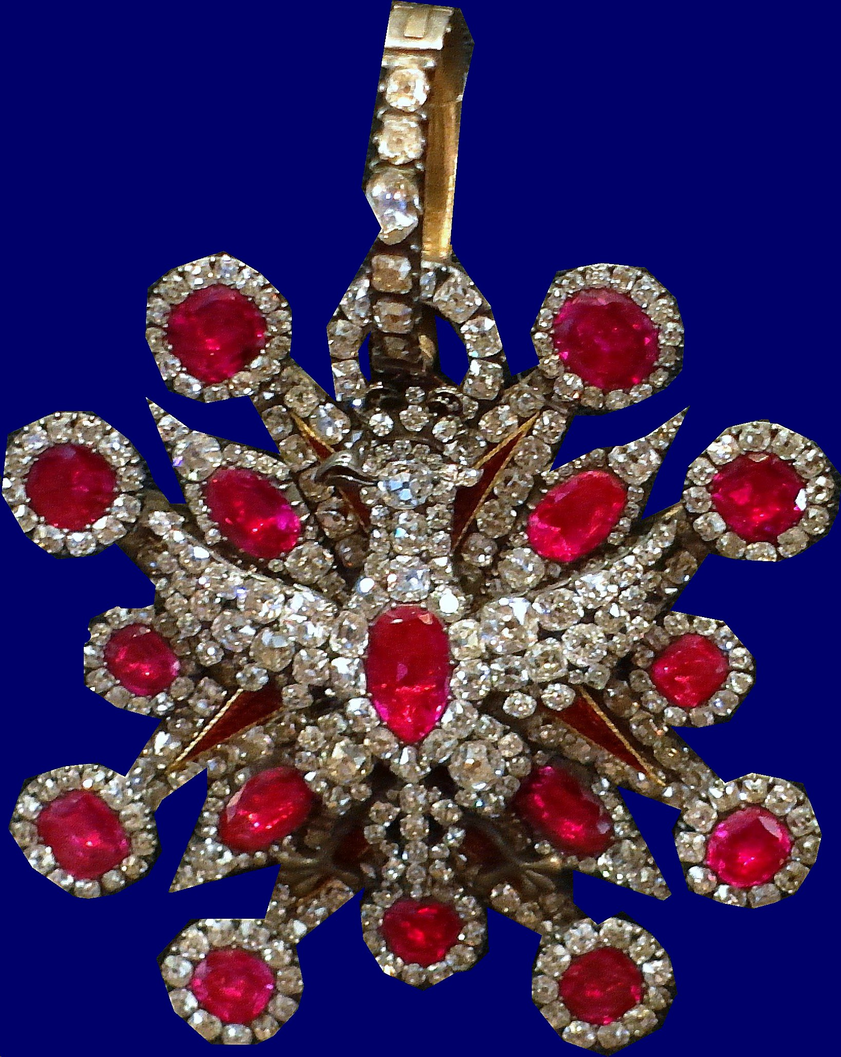 Star of the Royal Rubingarnitur of the Order of White Eagle of Augustus II the Strong